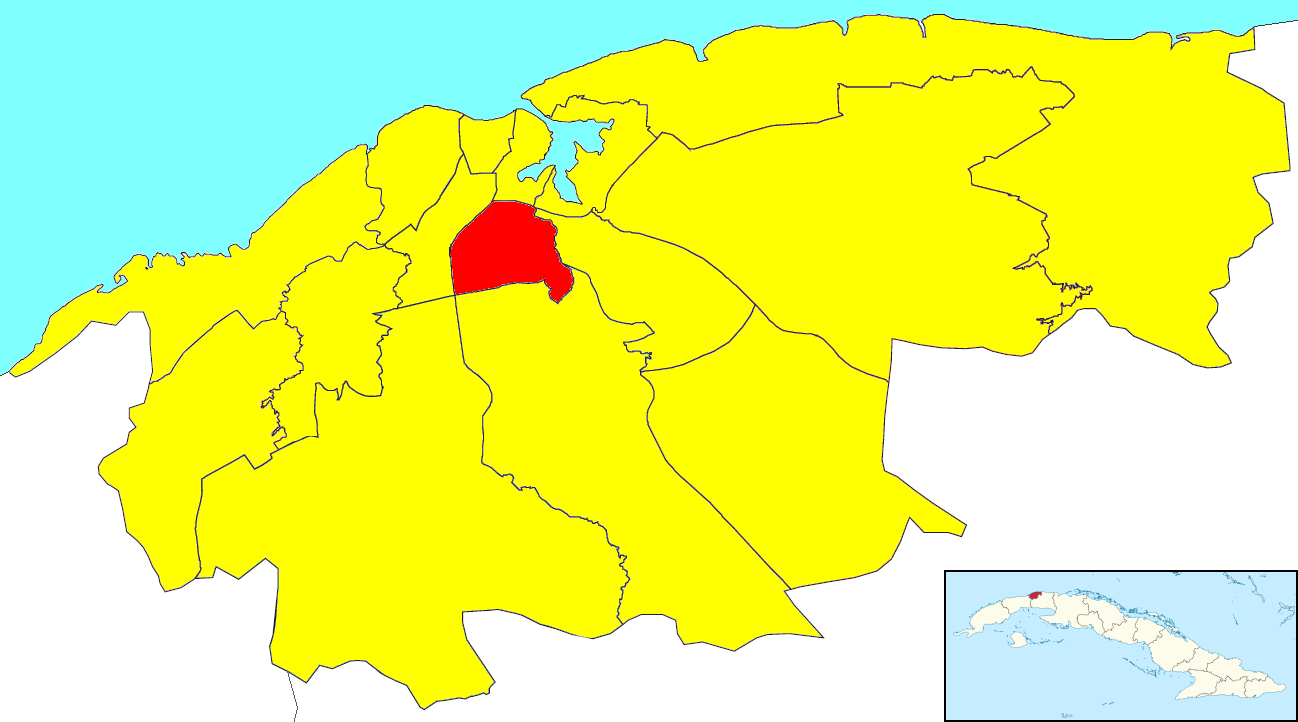 A map of the municipality of Diez de Octubre (shown in red) within the city of Havana (yellow). The little Cuban map in the corner shows Havana (dark red) within the island.